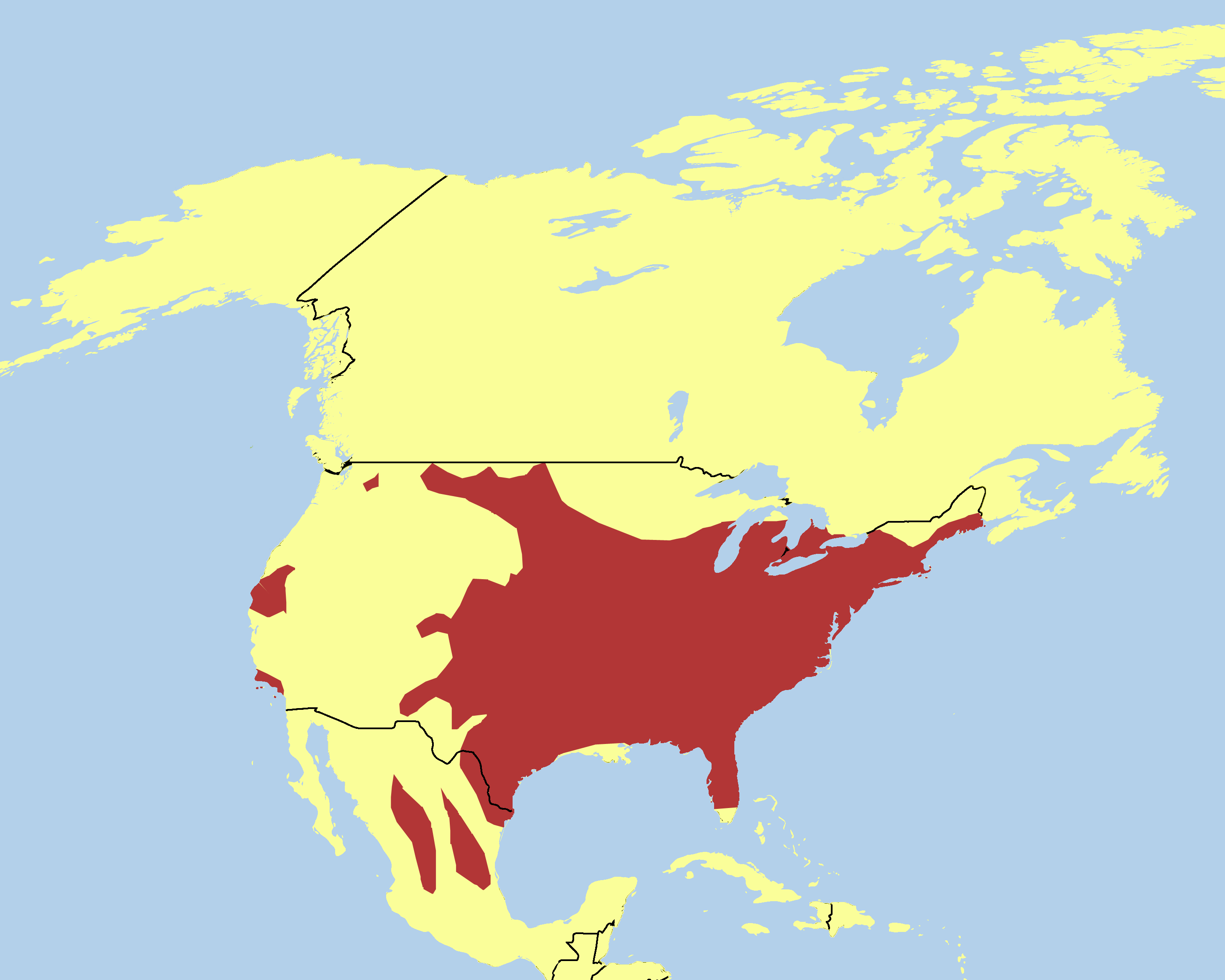 The Distribution of the Wild Turkey